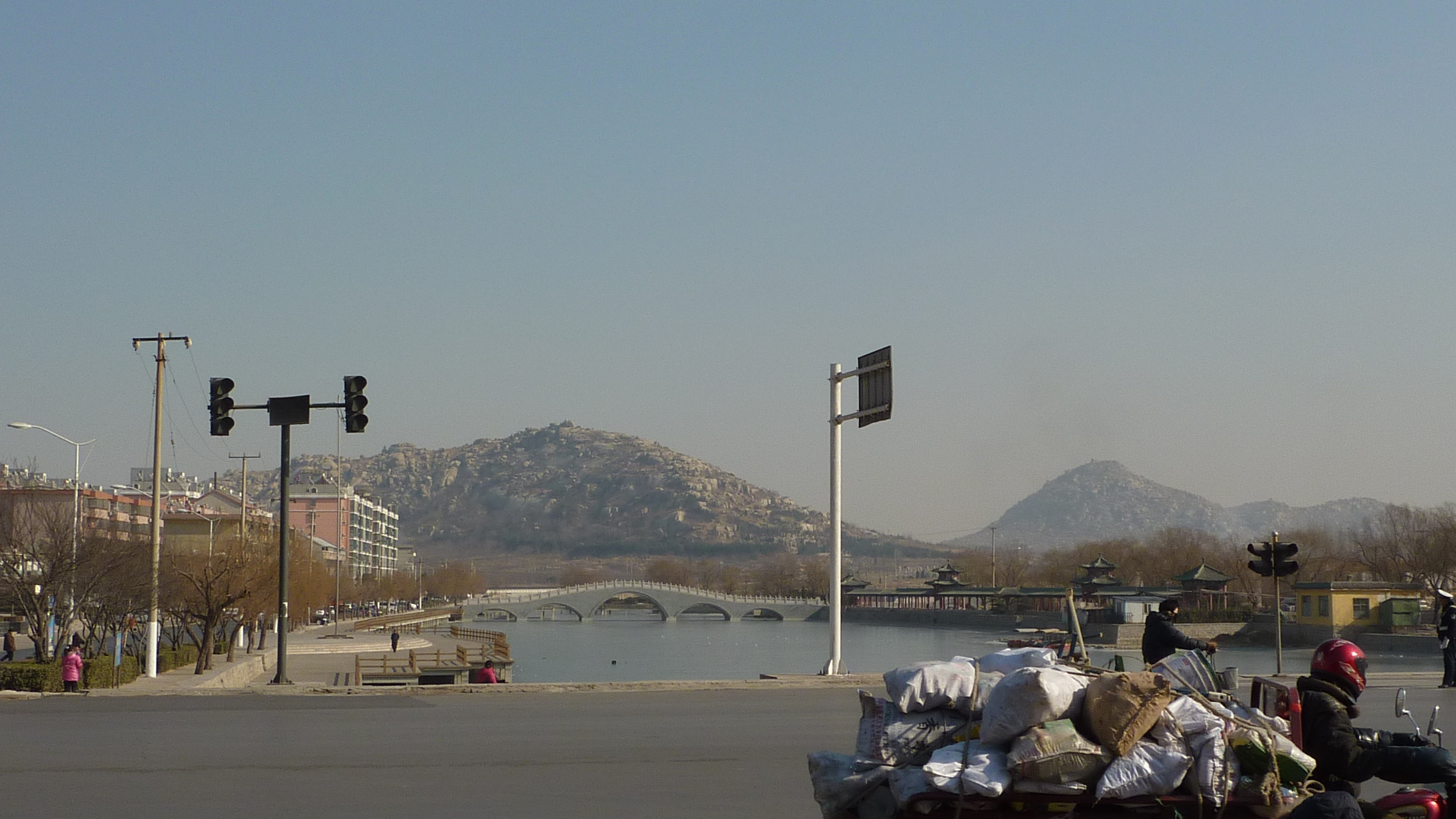 Looking east from the bridge on Yishan Middle Rd. in Zoucheng, not too far from the Mencius Temple.